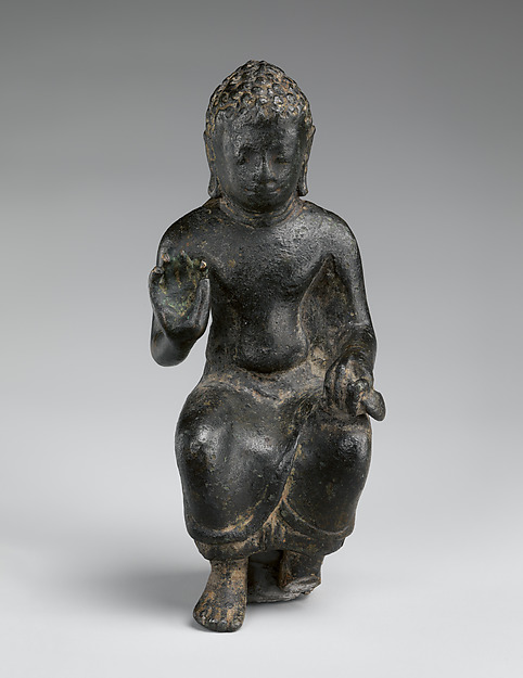 Period:Mon-Dvaravati period Date:ca. 9th century Culture:Thailand (probably Nakhon Pathom Province) Medium:Stucco Dimensions:H. 10 1/2 in. (26.7 cm) Classification:Sculpture Credit Line:Samuel Eilenberg Collection, Gift of Samuel Eilenberg, 1987 Accession Number:1987.142.288 This file was donated to Wikimedia Commons by as part of a project by the Metropolitan Museum of Art. See the Image and Data Resources Open Access Policy